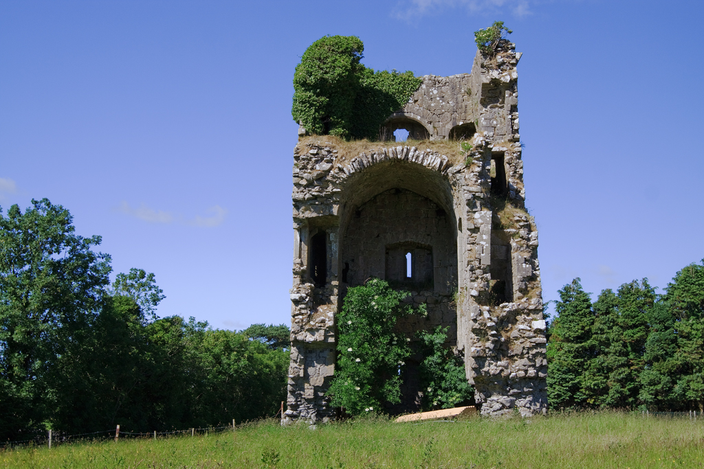 Castles of Connacht: Garbally, Galway